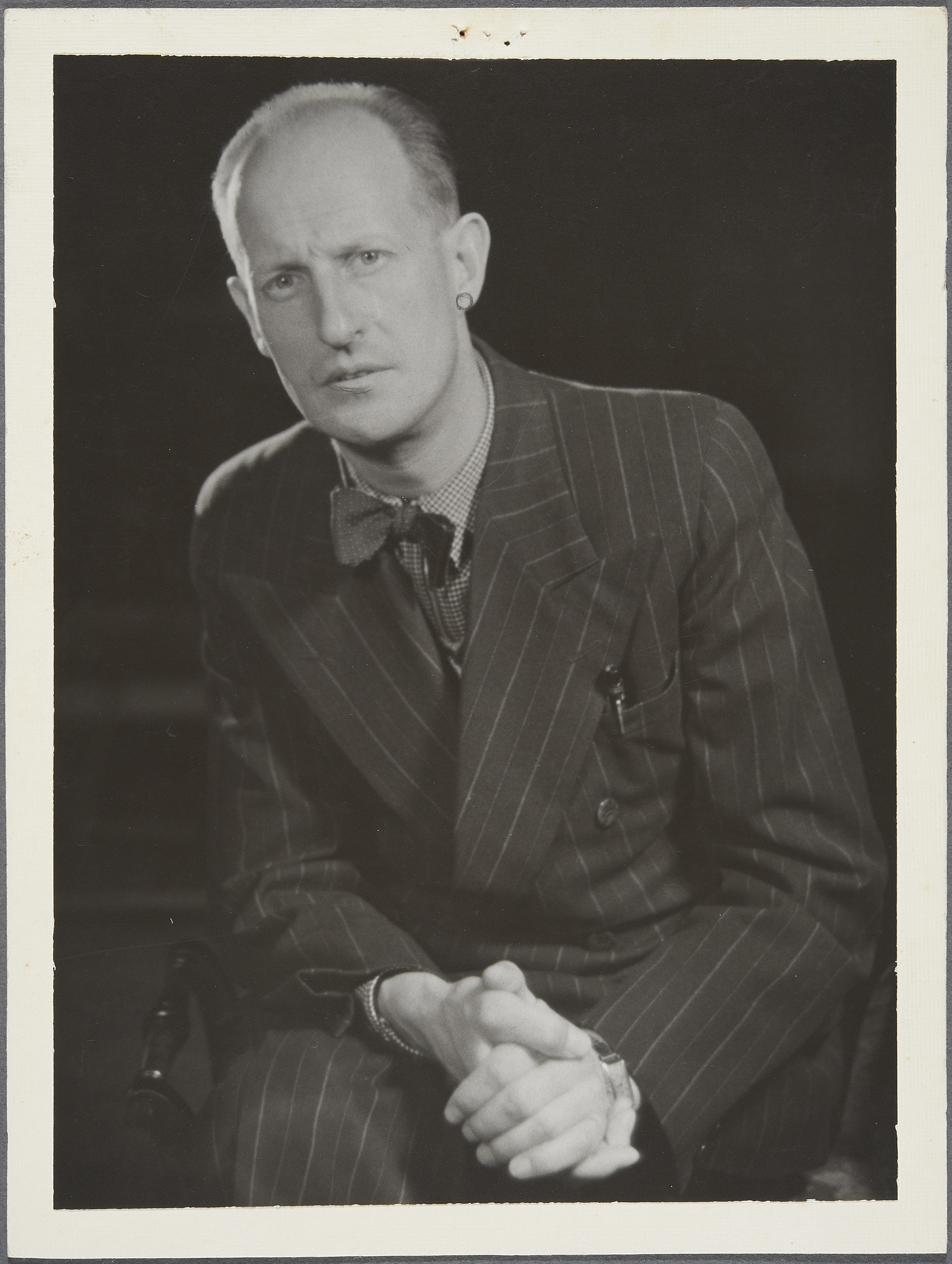 Photograph of the Finnish organist, pianist and music educator Jouko Kunnas (1907–1970).